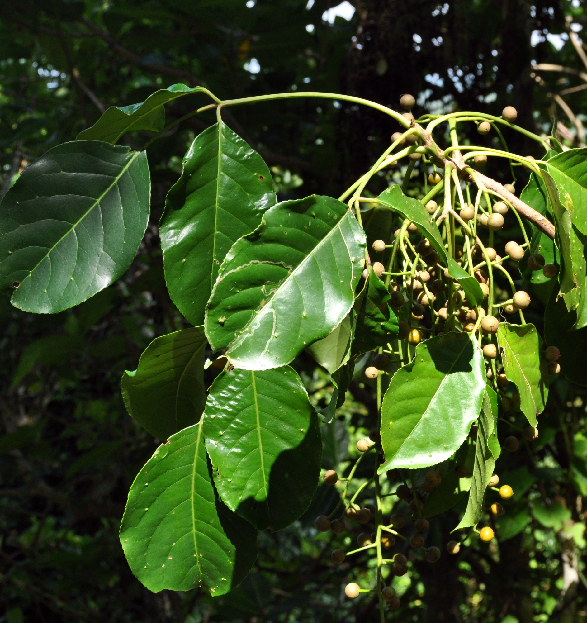 Fruiting twig of Bischofia javanica, from Blitar, East Java, Indonesia